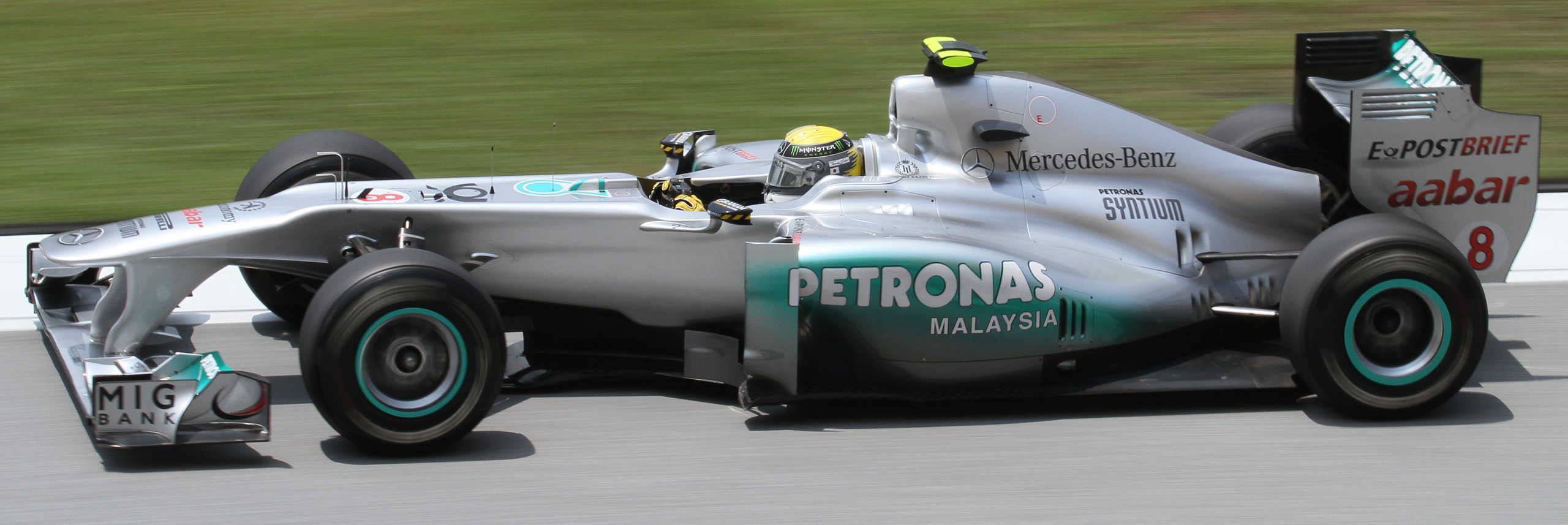 Formula One 2011 Rd.2 Malaysian GP: Nico Rosberg (Mercedes) during the second practice session on Friday.